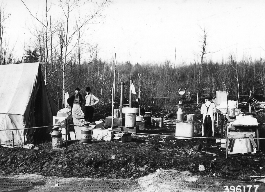 Scope and content: Original caption: Fire camp showing fire equipment & massing facilities for civilian labor. Hughey Fire, Medford Dist.